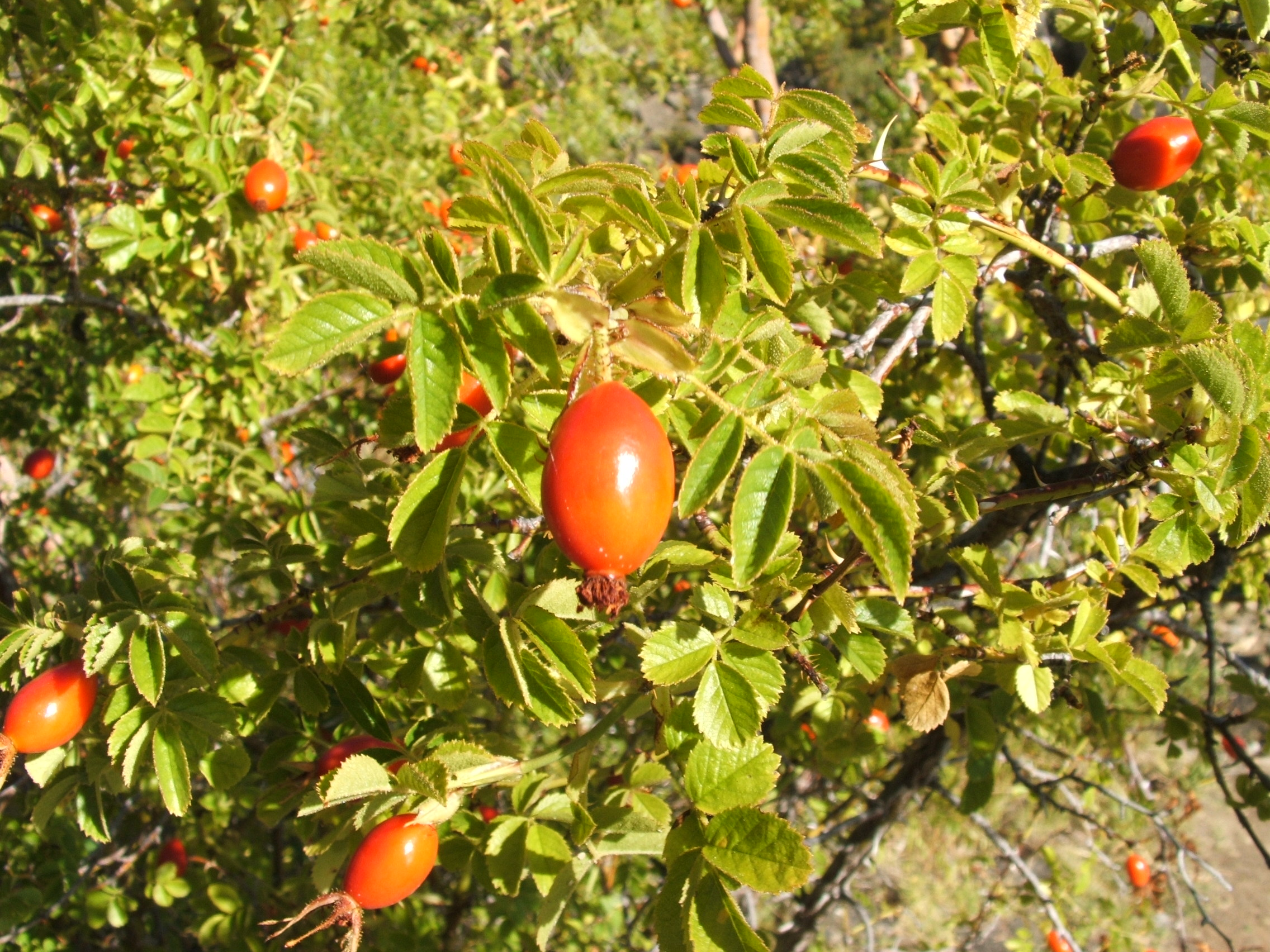 Rosa rubiginosa with fruits, near Lago Puelo in Argentine province of Chubut